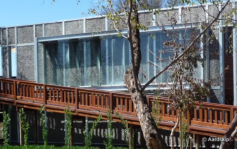 Natuurlike koelmuur in Orania Natural cooling wall in Orania